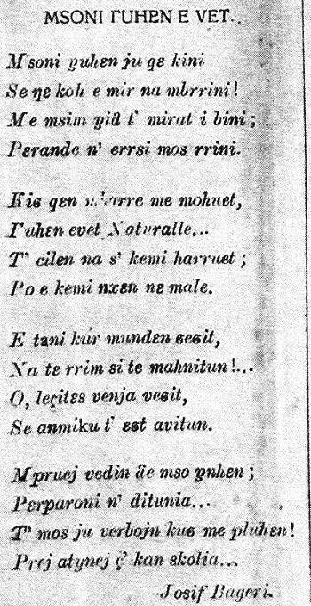 A poetry by Josif Bageri